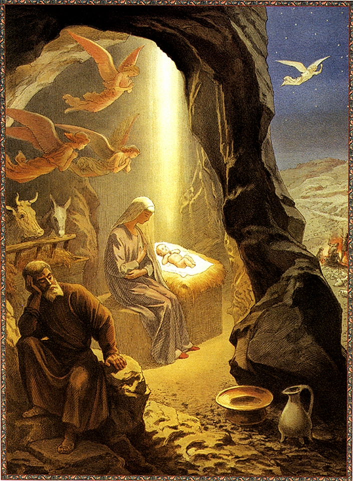 Christmas